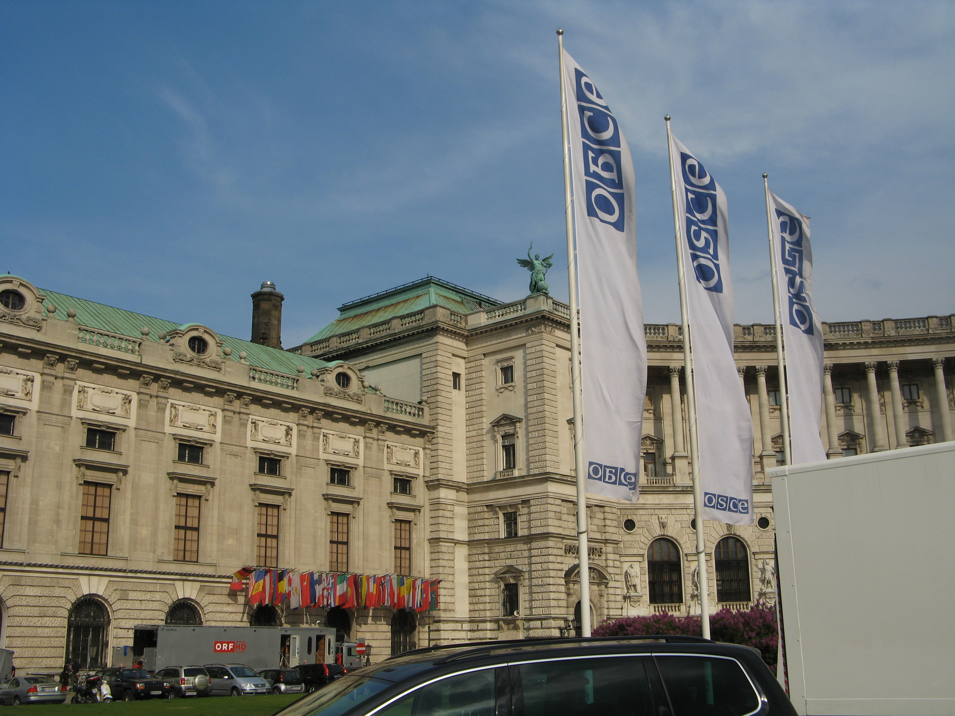 OSCE Permanent Council site at Hofburg, Vienna.